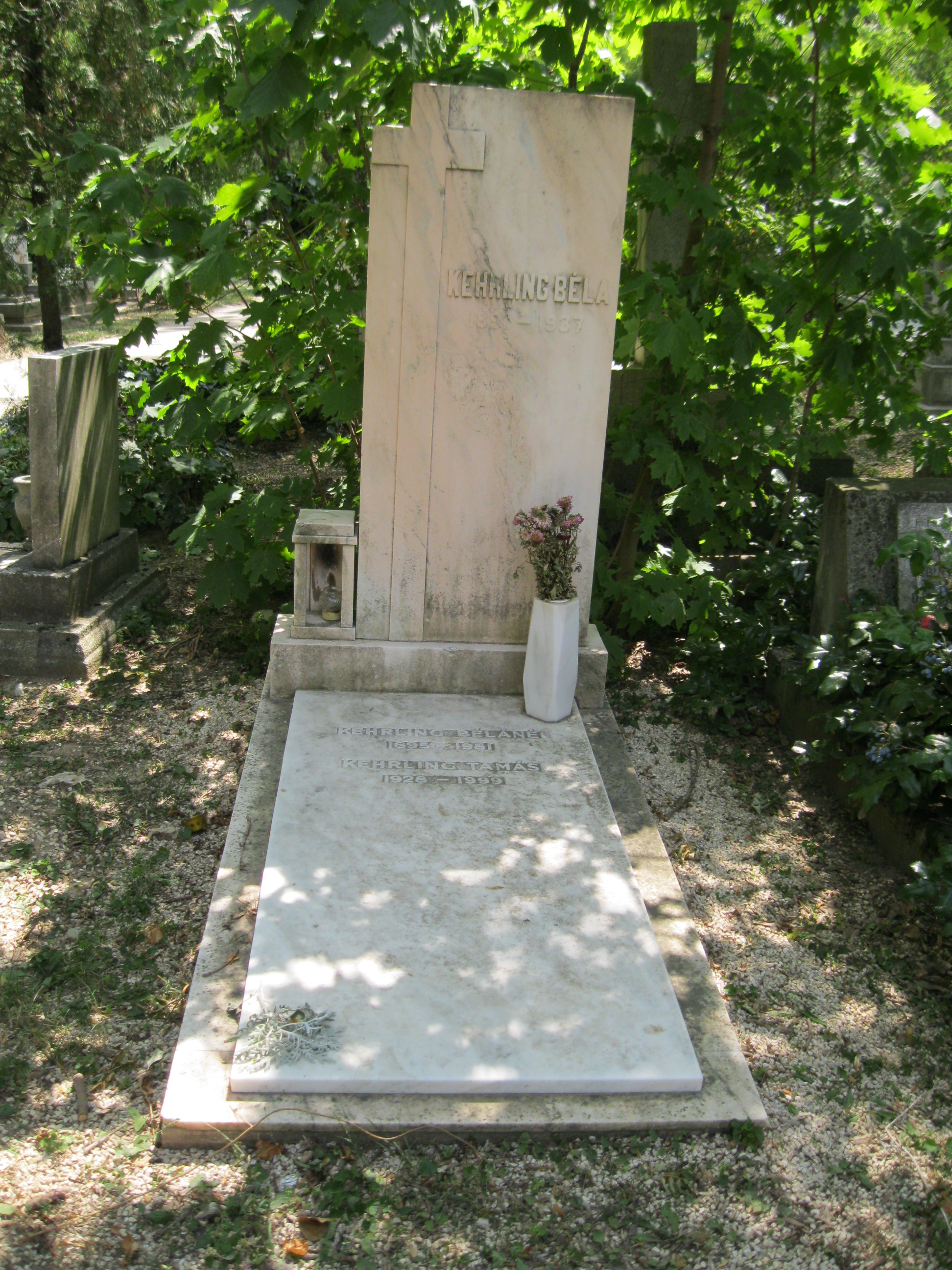 Tomb of Béla Kehrling in Farkasréti Cemetery [7/5-1-30]